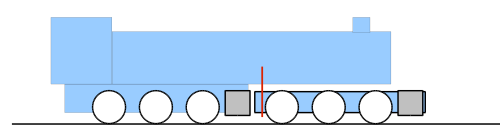 Schematic of a Mallet locomotive. Cylinders are in grey, articulation points in red.